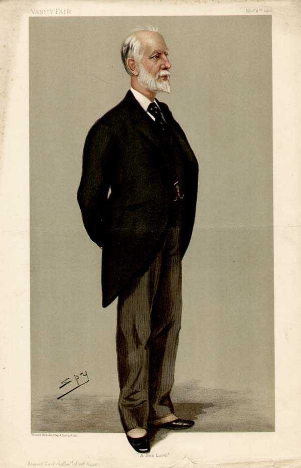 Caricature of Adm Lord WT Kerr. Caption read "A Sea Lord".